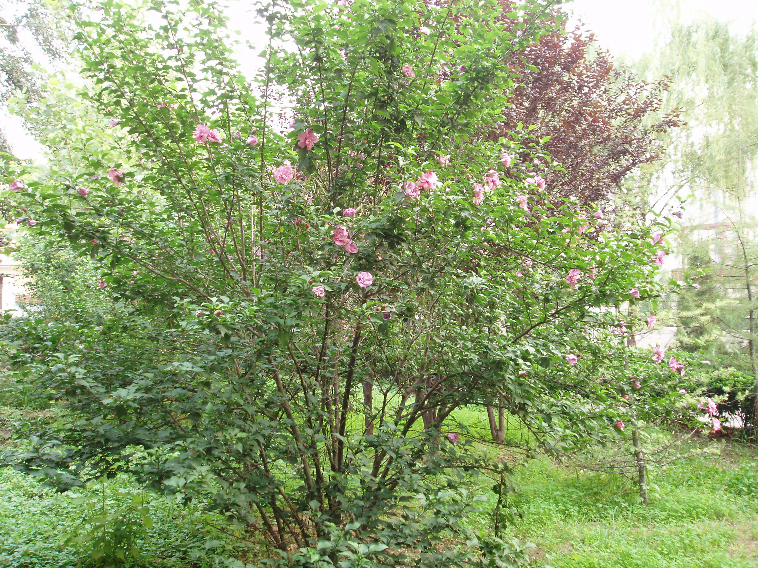 Rose of Sharon